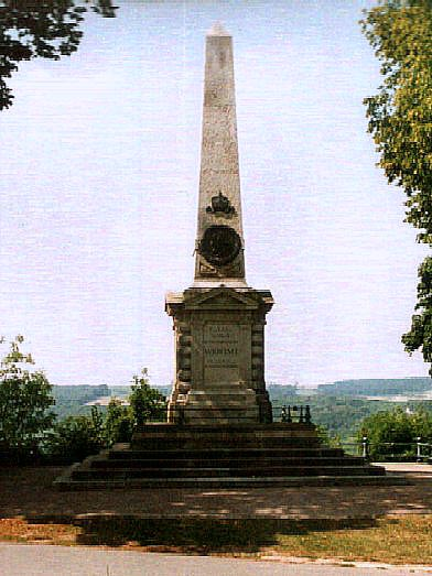 Monument for the German Emperor Wilhelm I., near Rudelsburg (Germany)